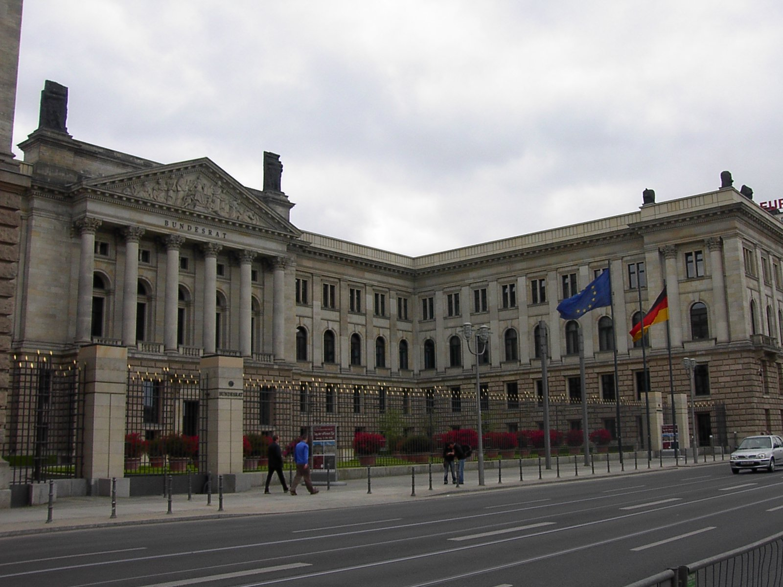 Photo by User:Adam Carr, May 2006